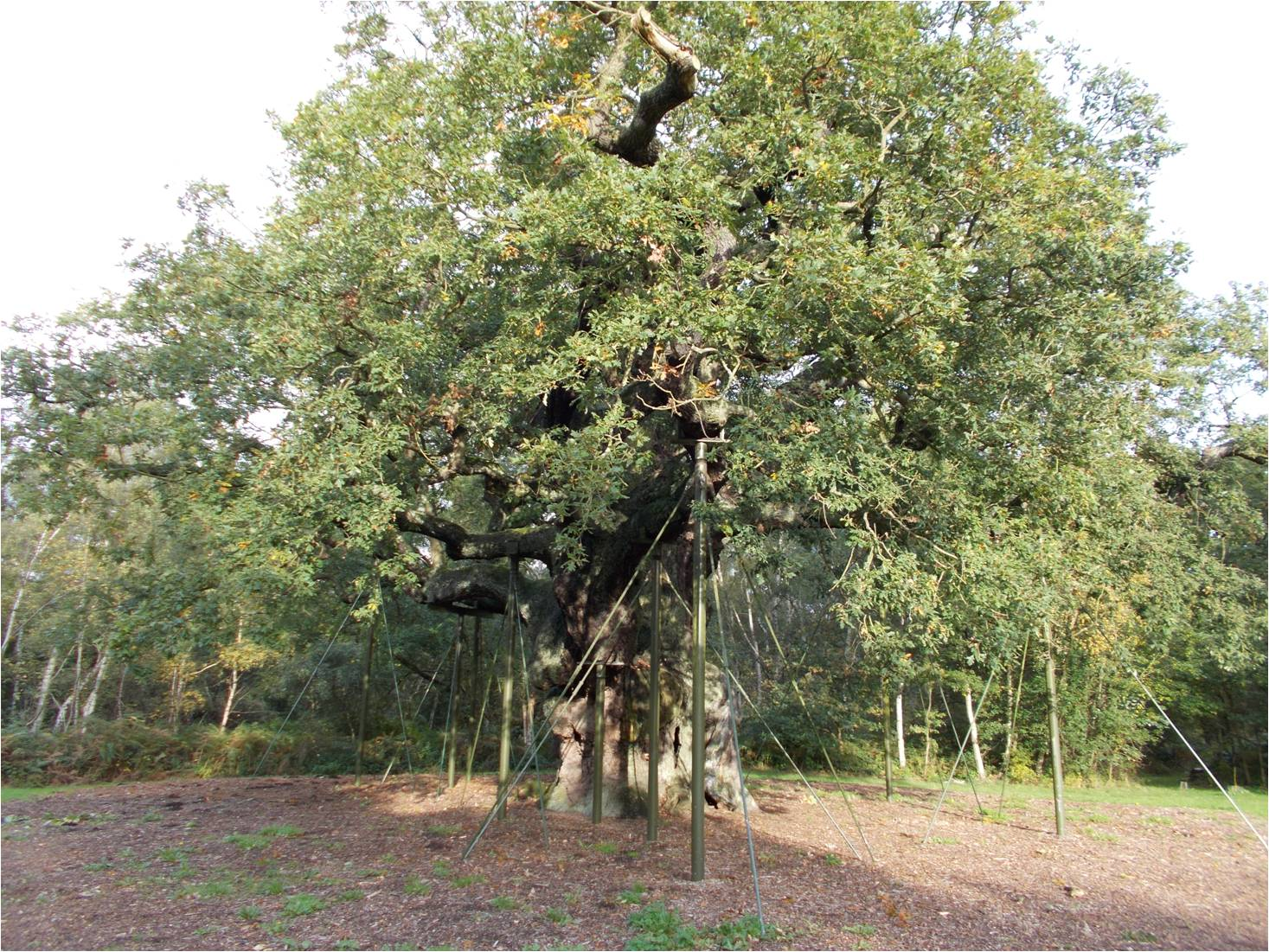 Major Oak in October 2013